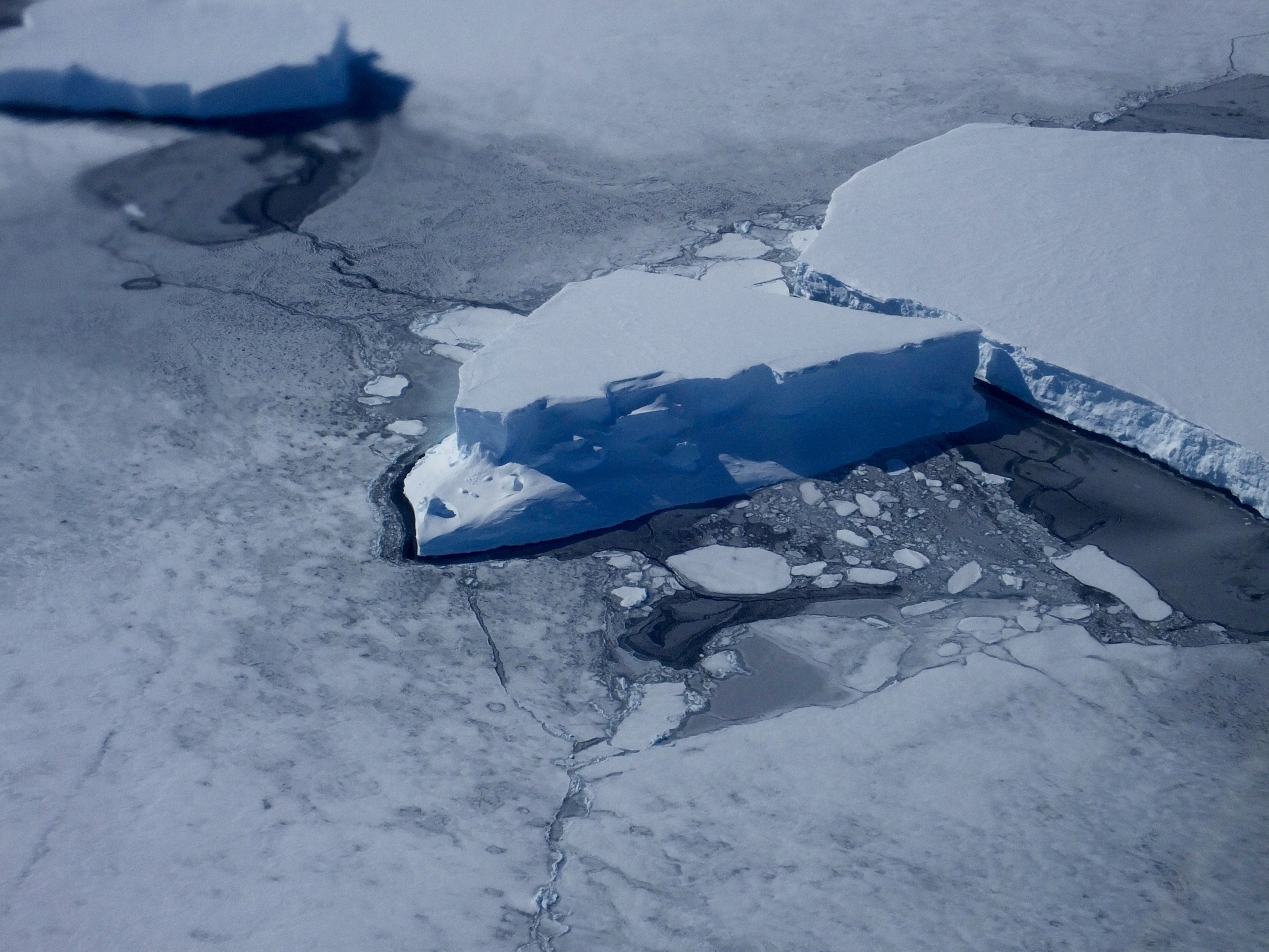 Icebergs in Stange Sound, off the English Coast in West Antarctica. Photo captured during Operation IceBridge's mission “English Coast” on Nov. 17, 2016. (NASA/Maria-Jose Viñas).